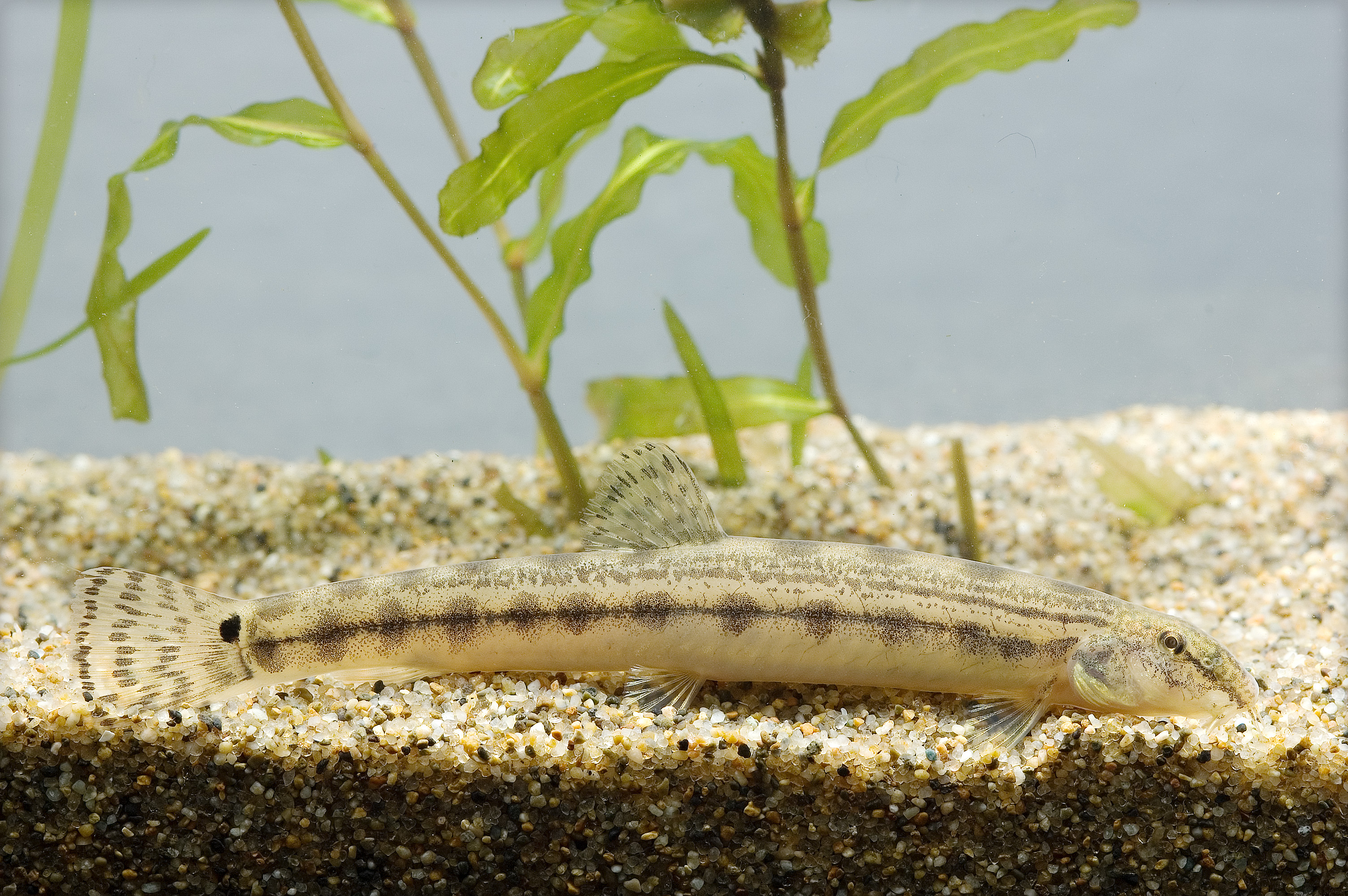 Shimadojyo, Cobitis biwae, from Hamamatsu, Shizuoka, Japan.